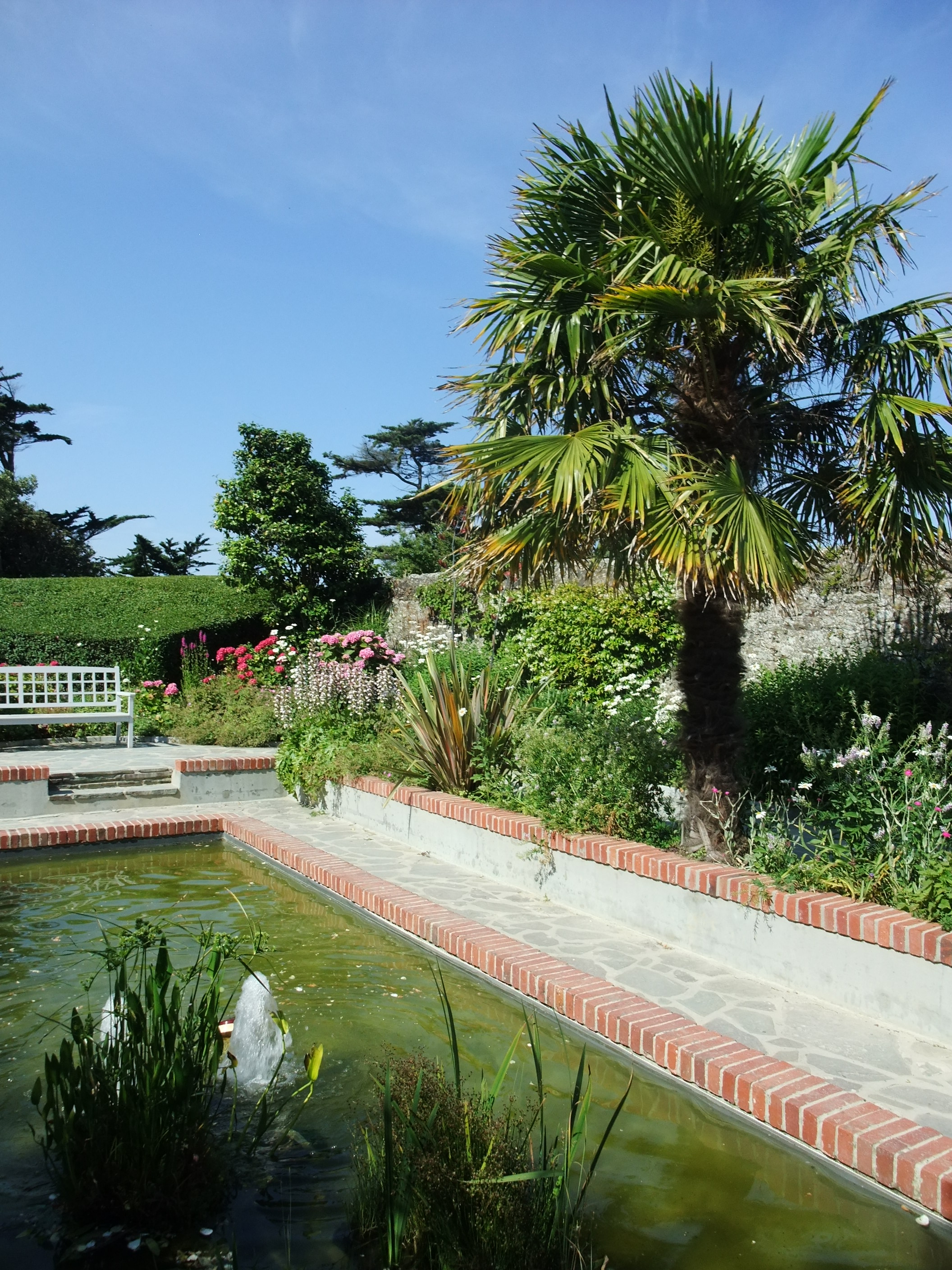 The garden of the Museum Christian Dior, Granville, France